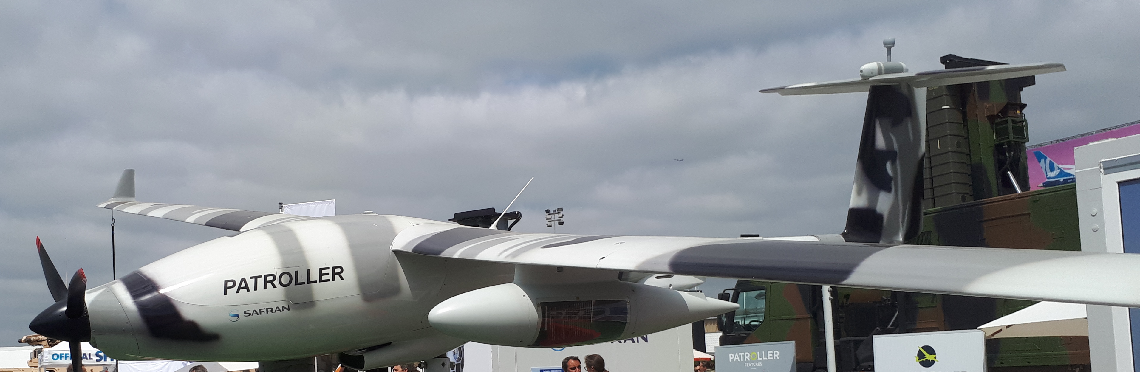 Safran Patroller at SIAE 2017